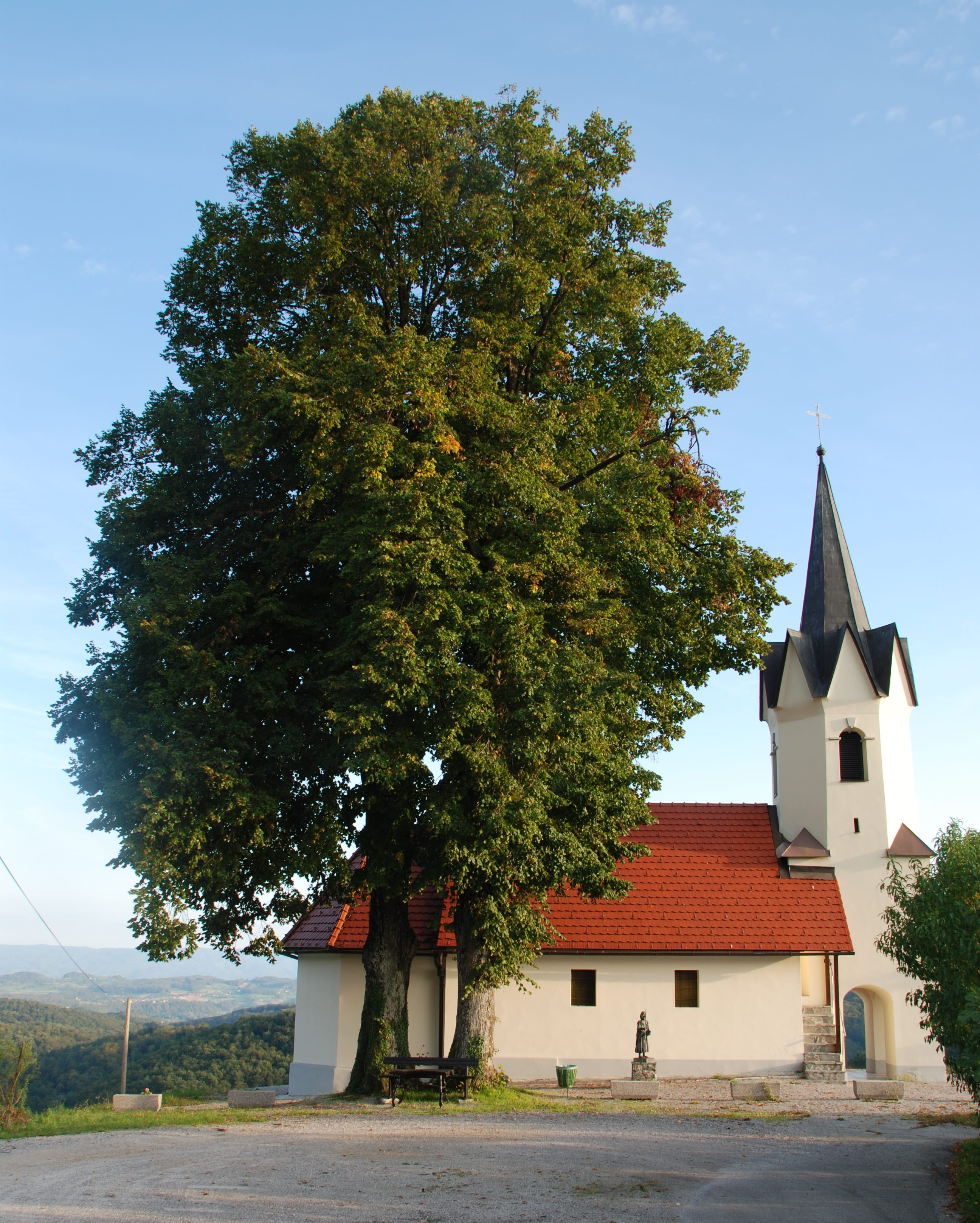 St. James the Greater Church in Pavla Vas (Municipality of Sevnica), southeastern Slovenia.